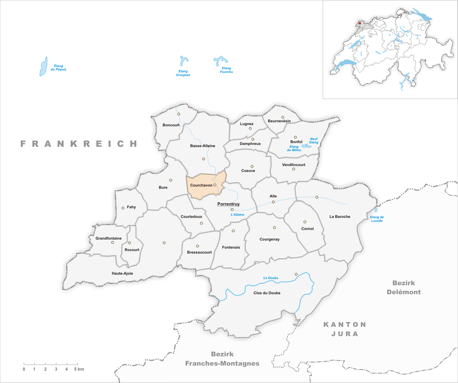 Municipality Courchavon